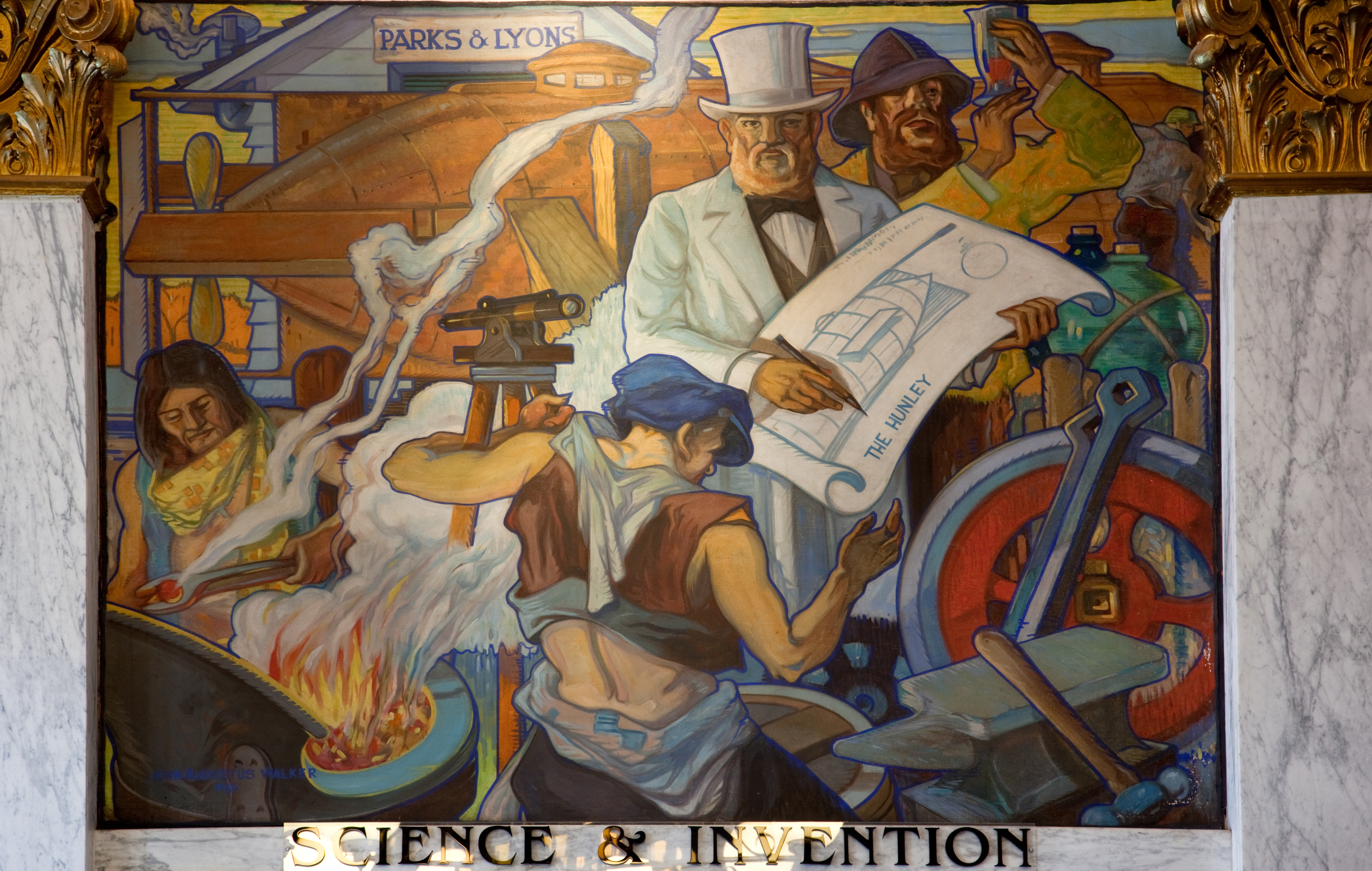 Photograph of murals by John Augustus Walker on permanent display in the History Museum of Mobile lobby, Mobile, Alabama.